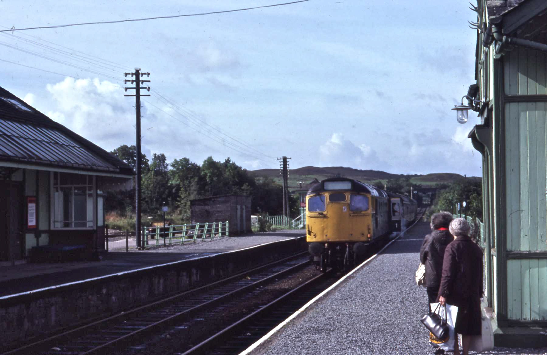 Class 26 in 1979